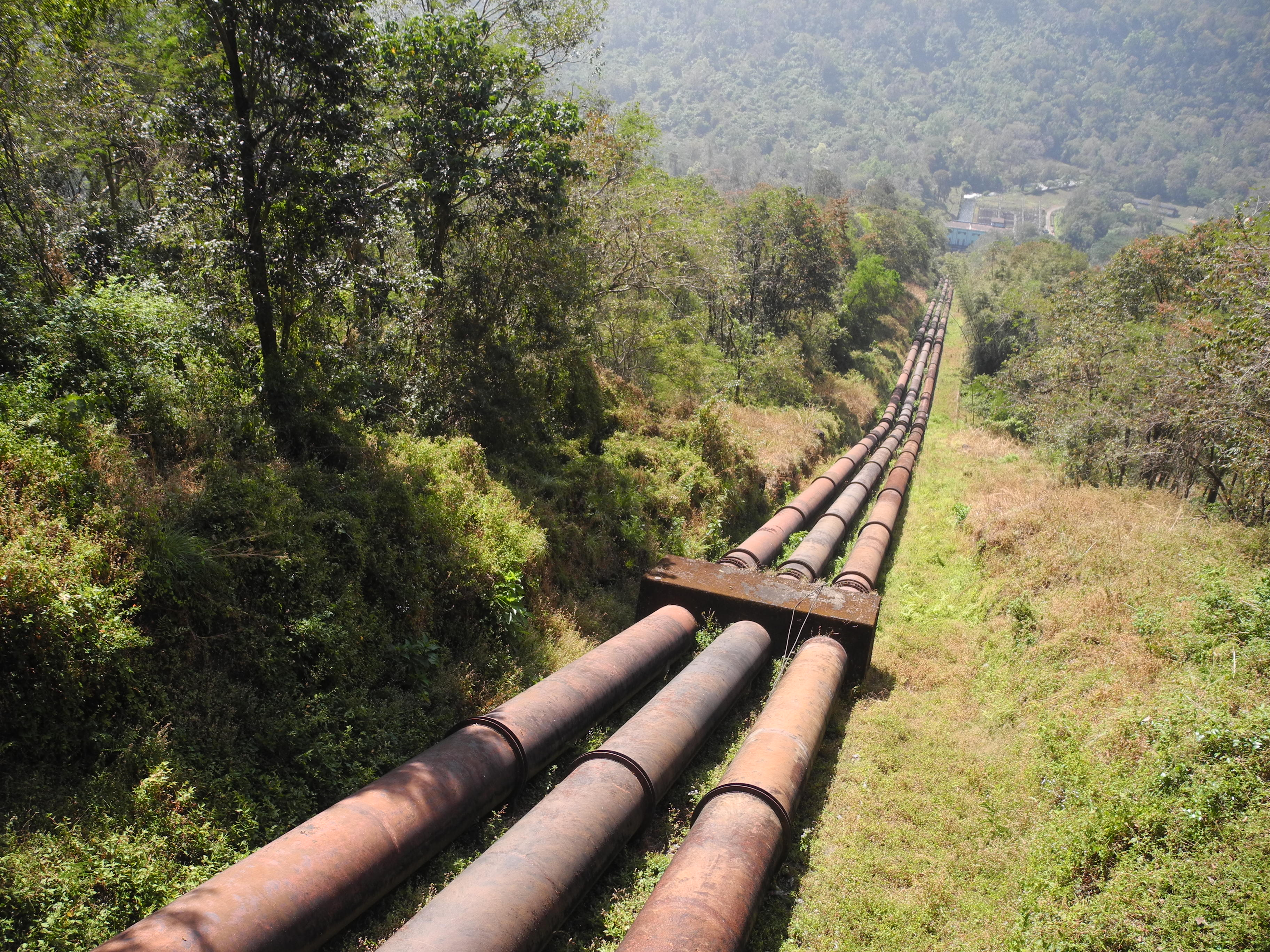 Pipelines to lower Sholayar power house in Kerala, passing through rainforests in Anamalai hills